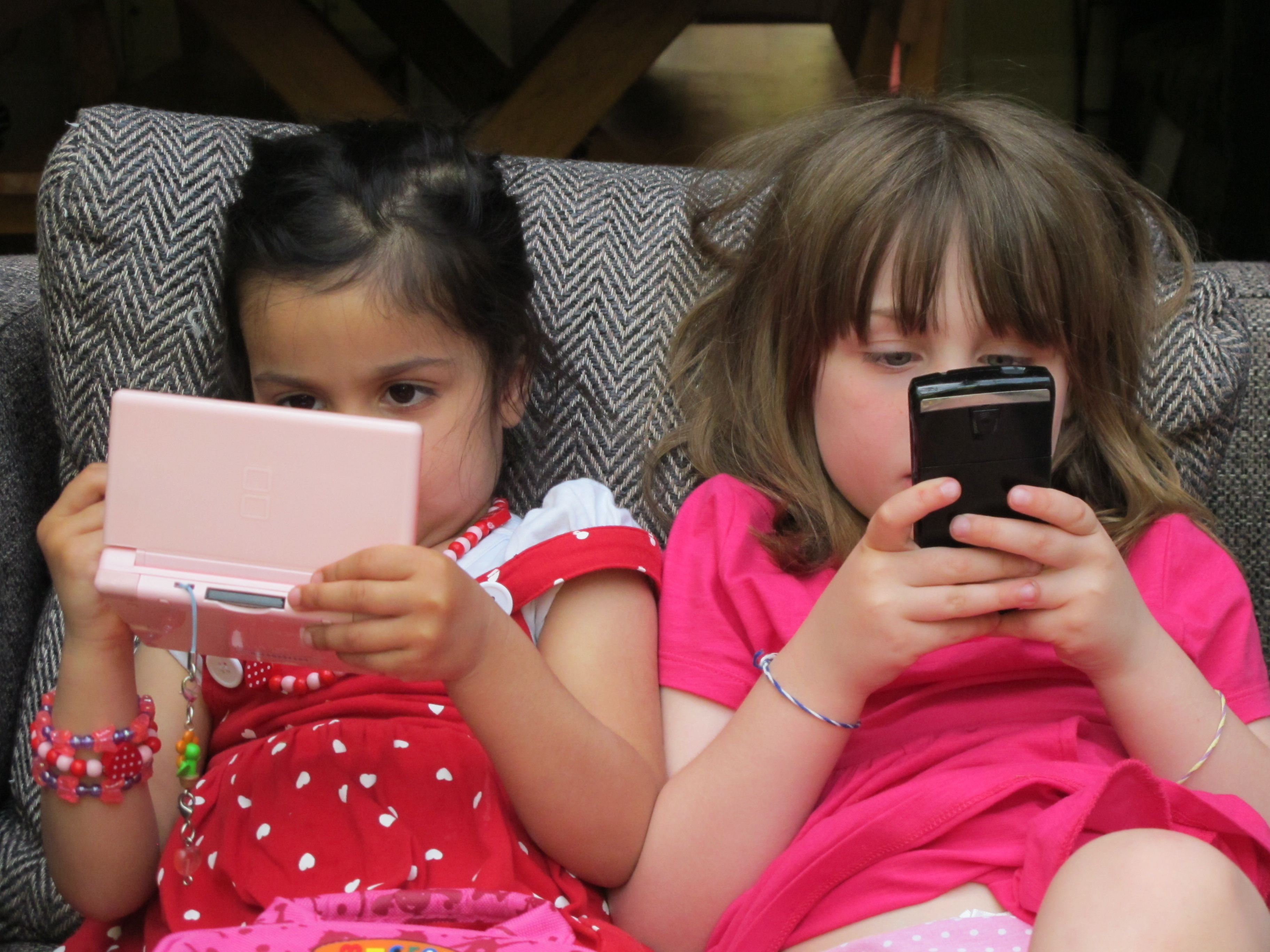 Two children. One playing with a DS. Other playing or chating on her phone.